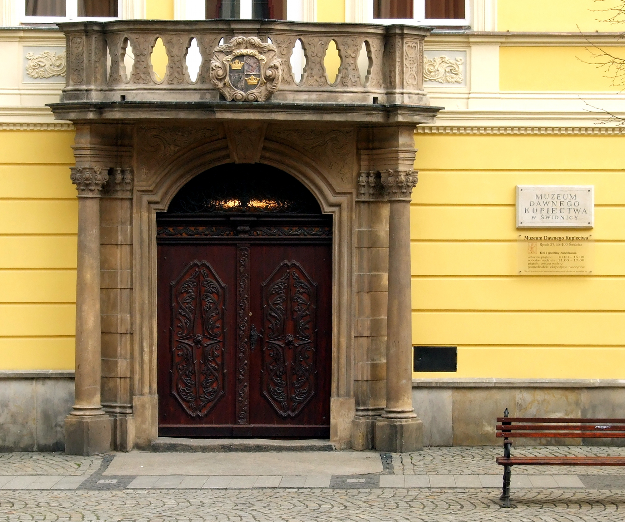 Muzeum Dawnego Kupiectwa in Świdnica, Poland